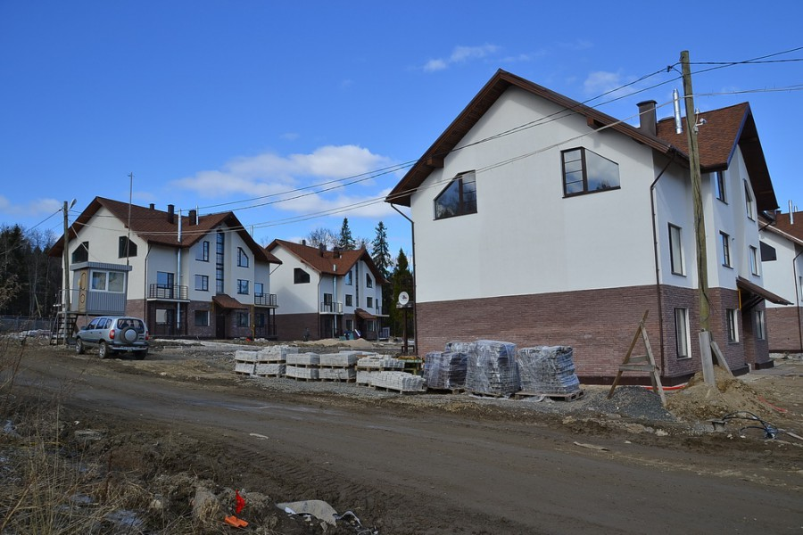 Sajnavolok